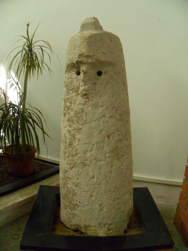 Baetylus statue viddalba